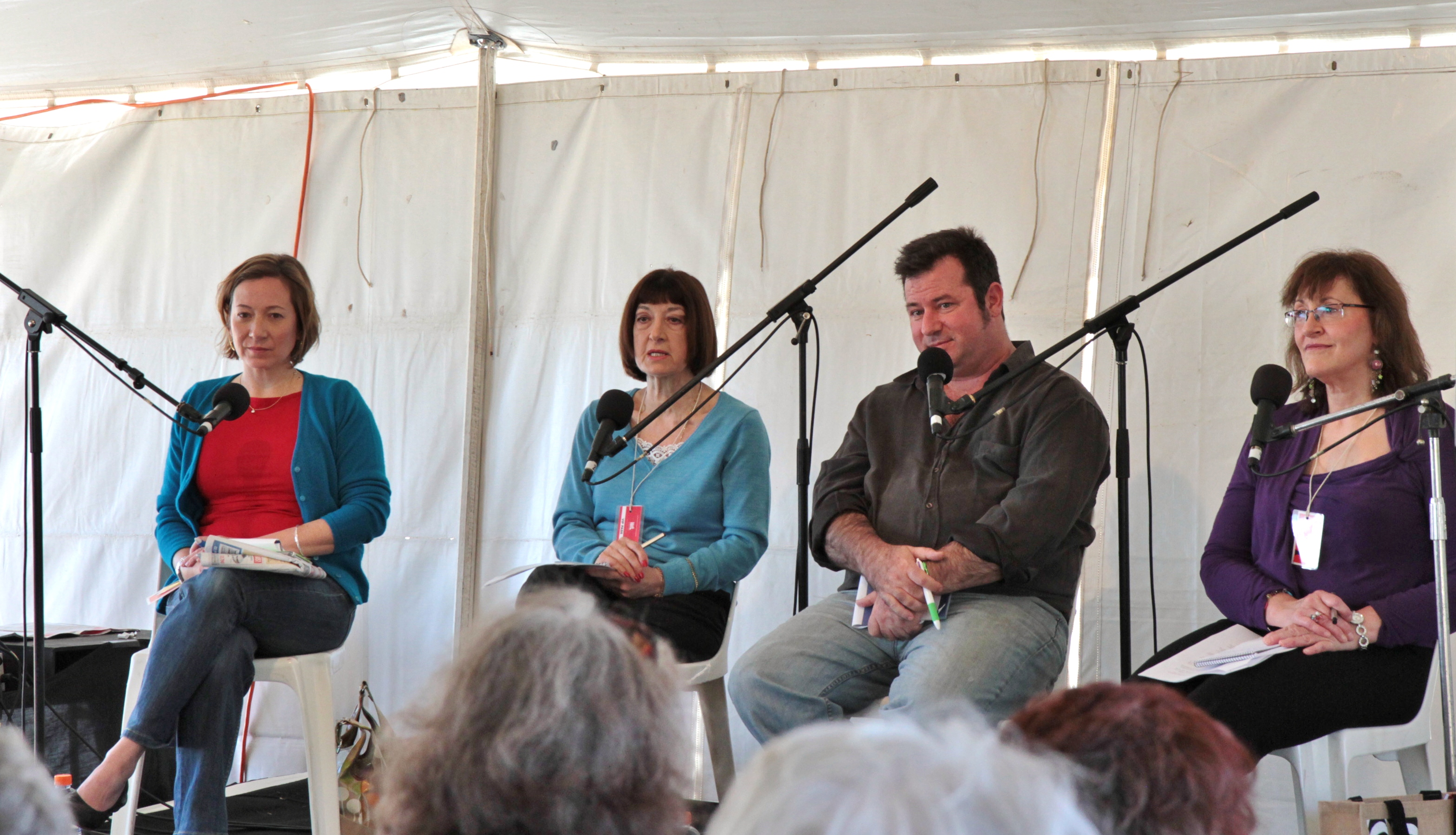 News reader, television personality and Author along with author and journalists Michele Nayman and Niki Savva talk with an animated crowd about the question "Should journalist be impartial?" Photo - Gabby Watson.